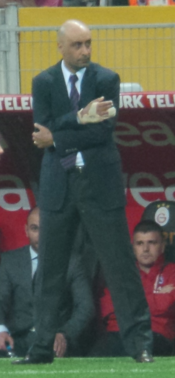 Tolunay Kafaks